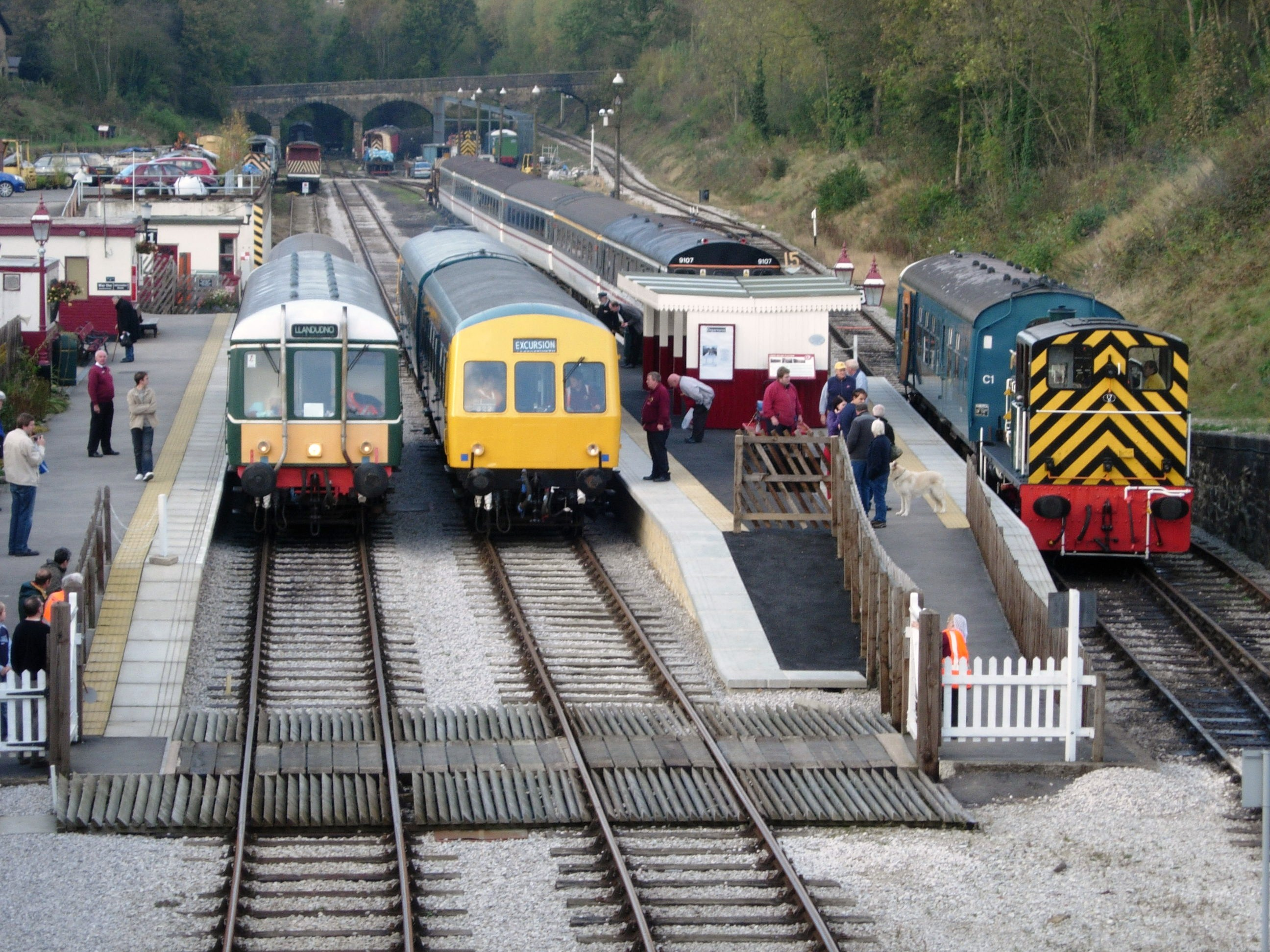 An overview of Wirksworth Station as it currently looks from Wash Green Bridge.